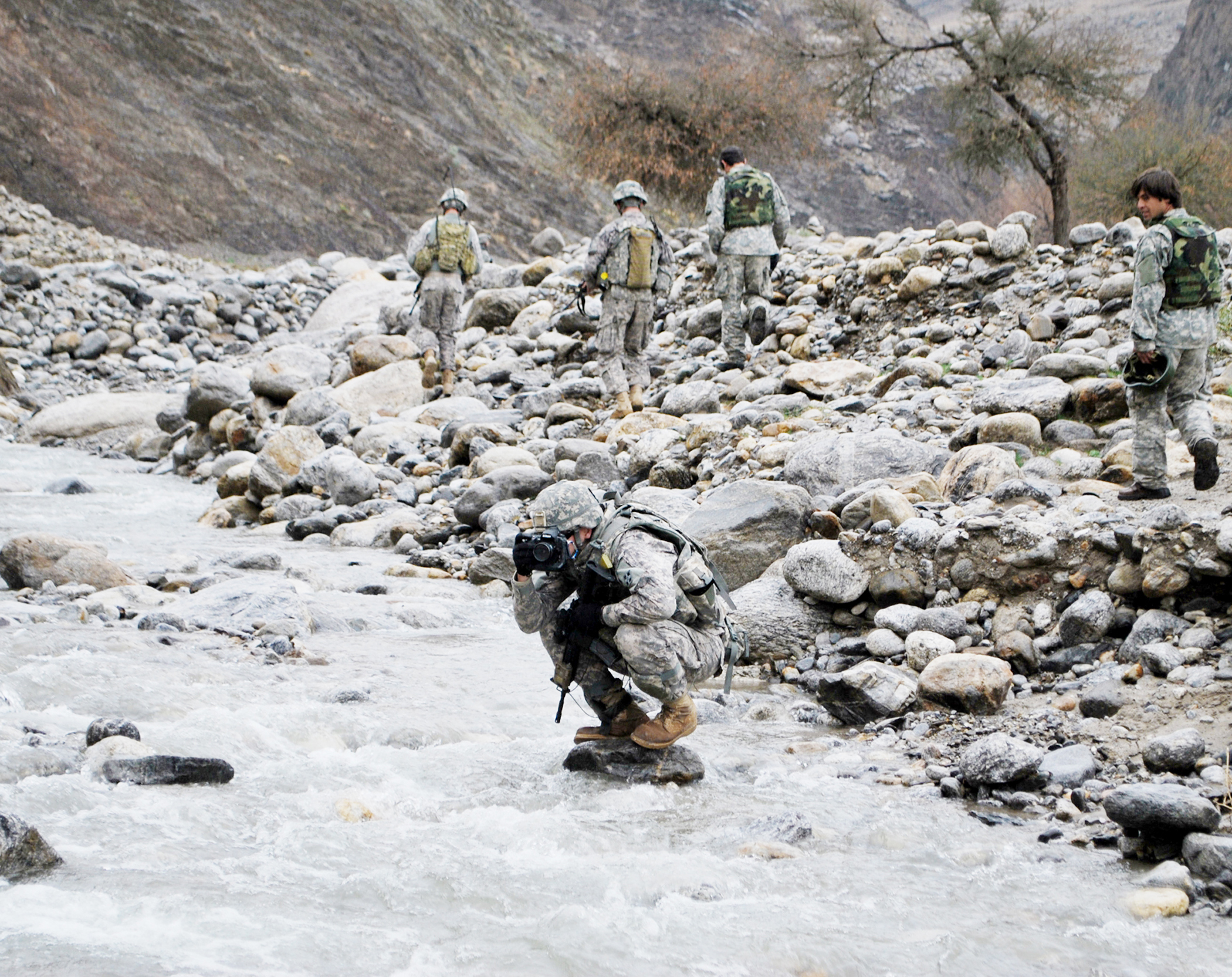 Staff Sergeant Steven Doty, a combat photographer for the Nuristan Provincial Reconstruction Team, snaps a photo of the rest of the team crossing a river in the Sundurwa village, March 3, 2010. The Nuristan PRT went to the Sundurwa village to conduct an engineer assessment on a retaining wall for the village to protect against future flash floods.